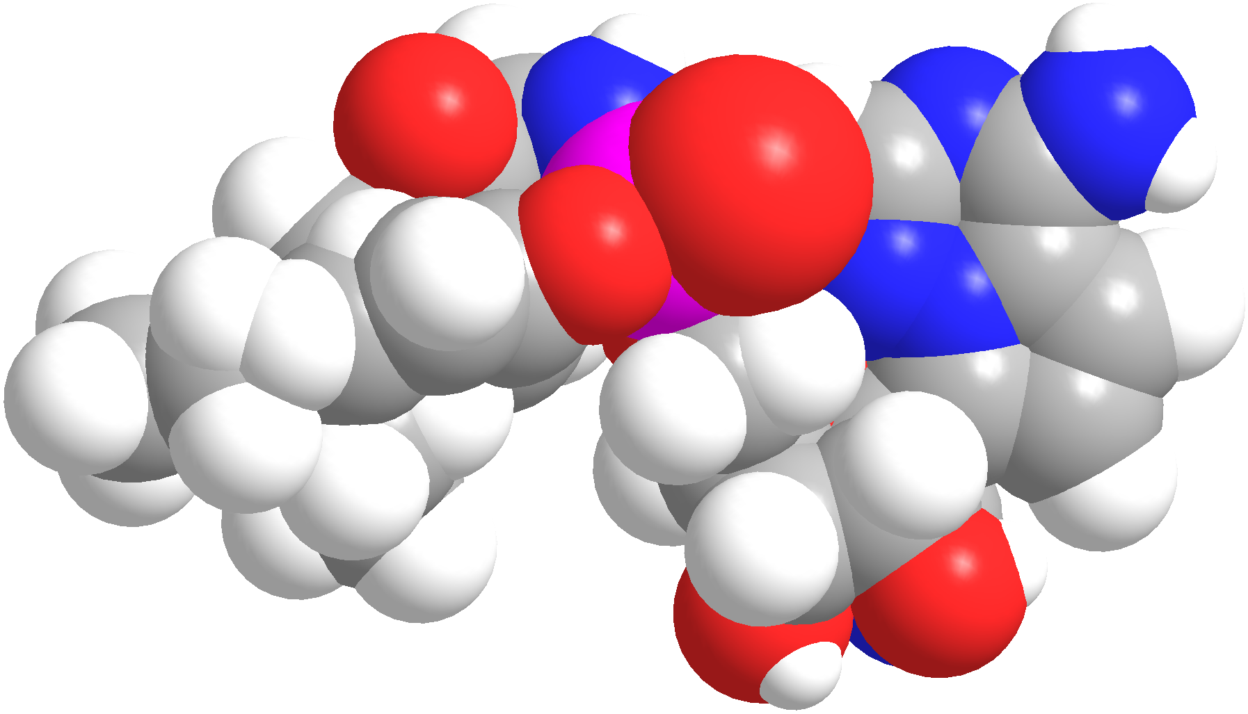 Remdesivir 3D structure.